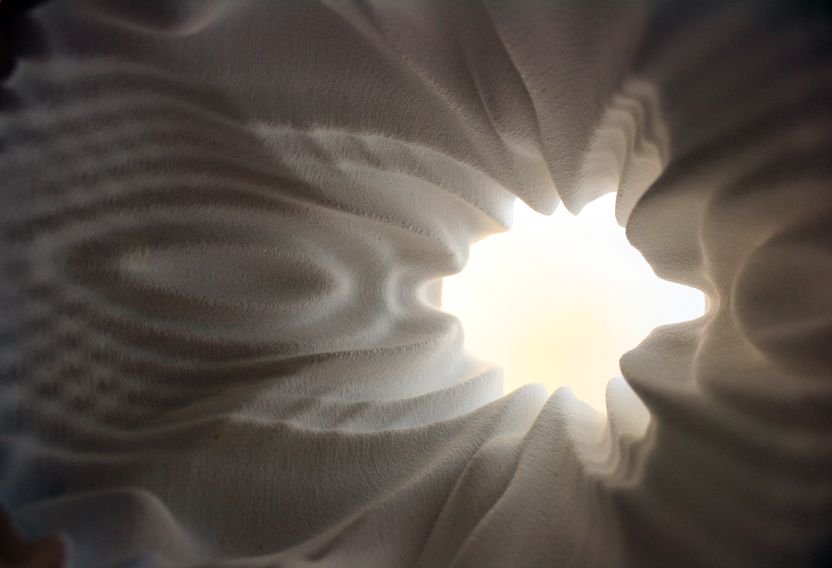 Cymatic 3D Print created w digital tools